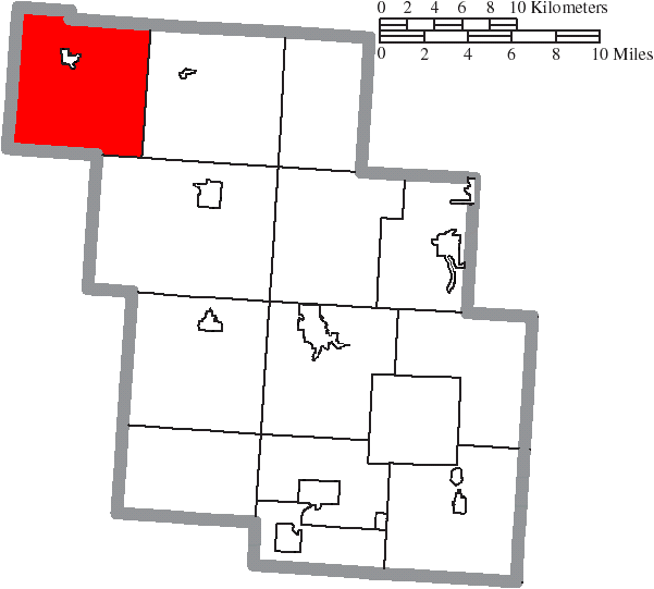 Map of the municipal and township boundaries of Perry County, Ohio, United States, as of the 2000 census, with the location of Thorn Township highlighted. Township borders are shown only in unincorporated areas in order to differentiate incorporated and unincorporated areas more clearly.